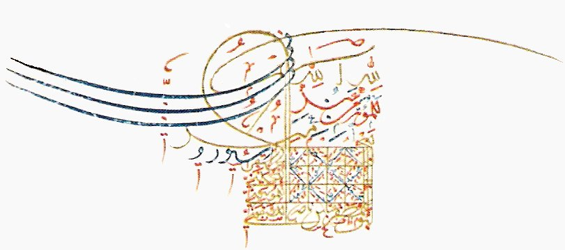 Tughra from a ferman of safavid Shah Abbas II.